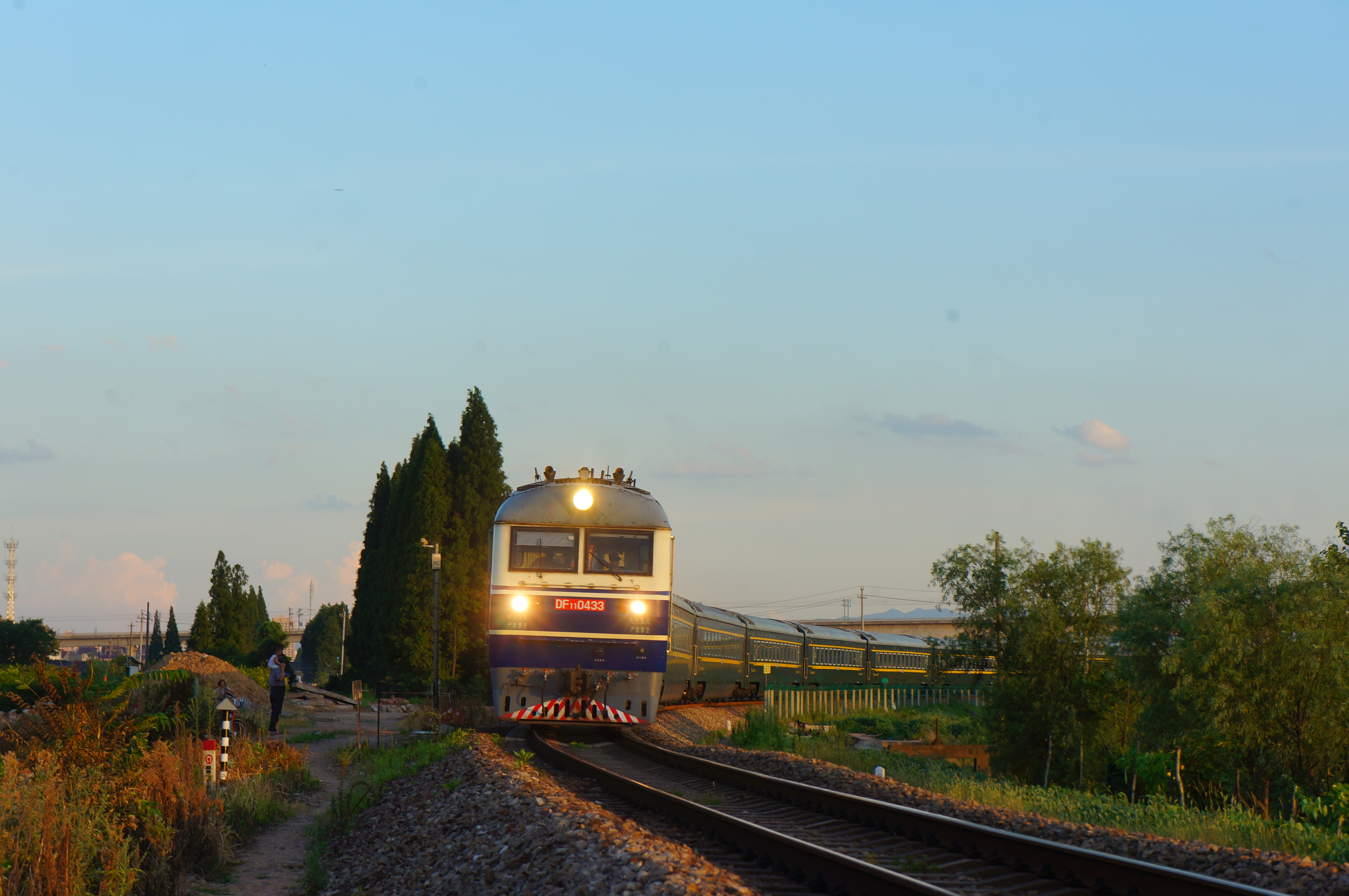 201607 DF11-0433 with T7785 at Jinhua–Qiandaohu Railway